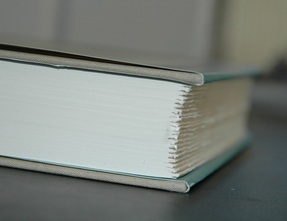 Deckle edge book. Book is The Canterbury Tales, Modern Library, 2008.